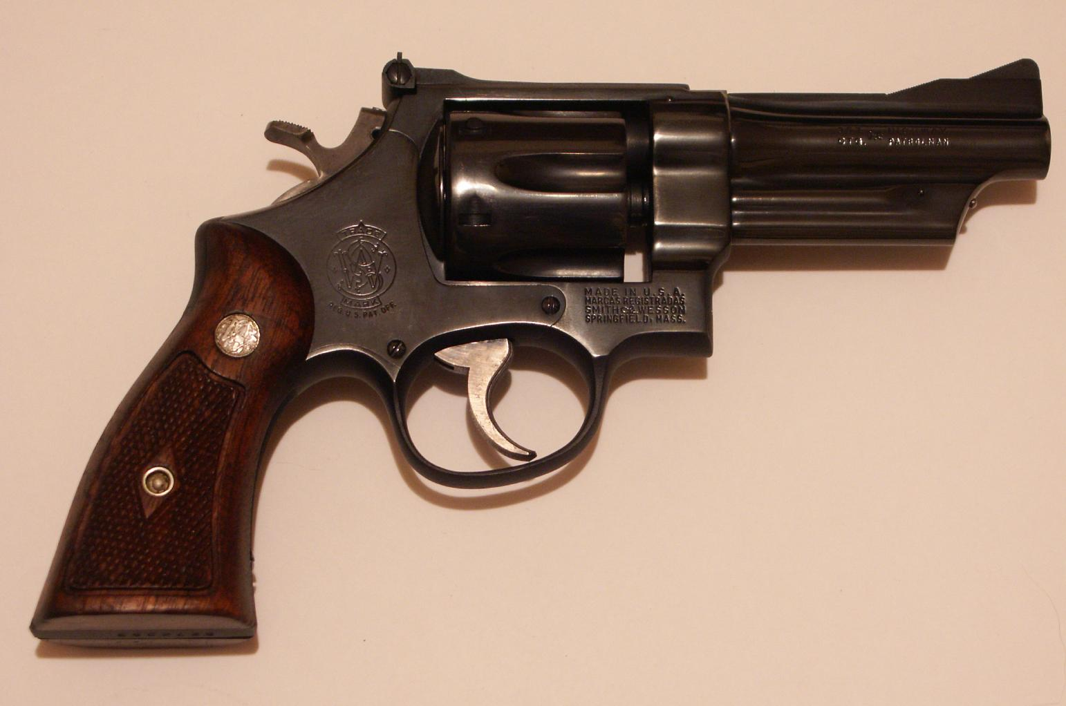 Revolver Smith & Wesson 28-2 Original name in Flickr: 113080994_4117afe639.jpg